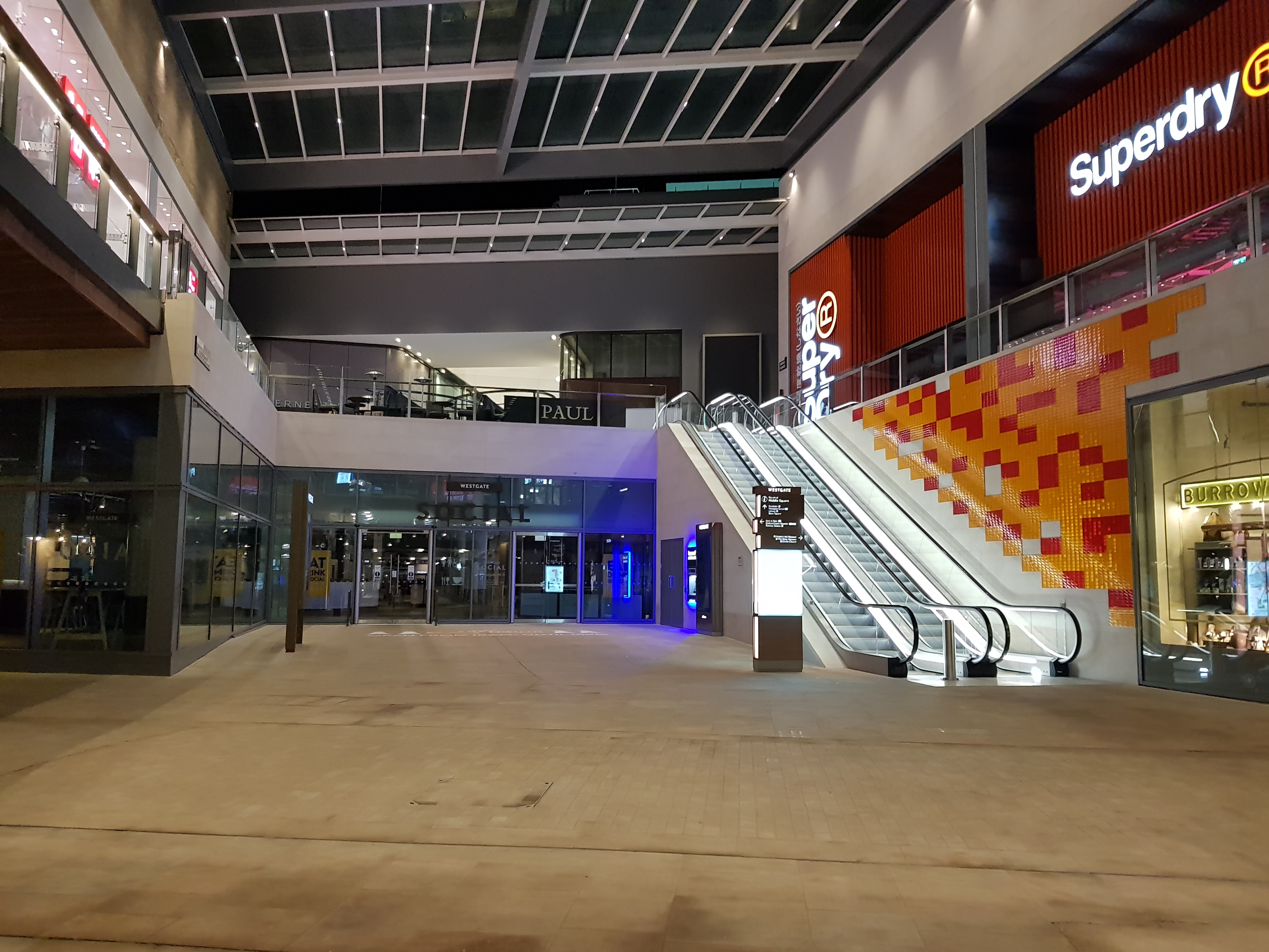 Westgate Social is a Food court in Westgate Oxford